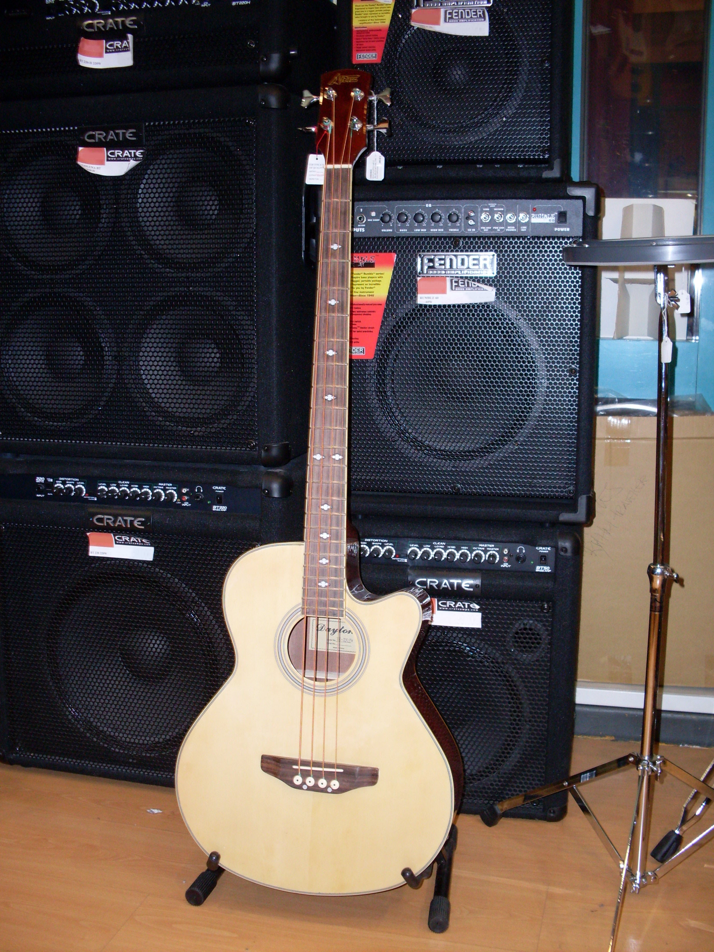 An acoustic bass guitar in a store. Artz/Dayton(?) acoustic bass guitar Crate BT220H Bass Amp Head Crate BT410 Bass Cabinet (?) Crate BT220 Bass Amp Fender Rumble 15 Combo (?) Fender Rumble 60 Combo Crate BT50 Bass Amp